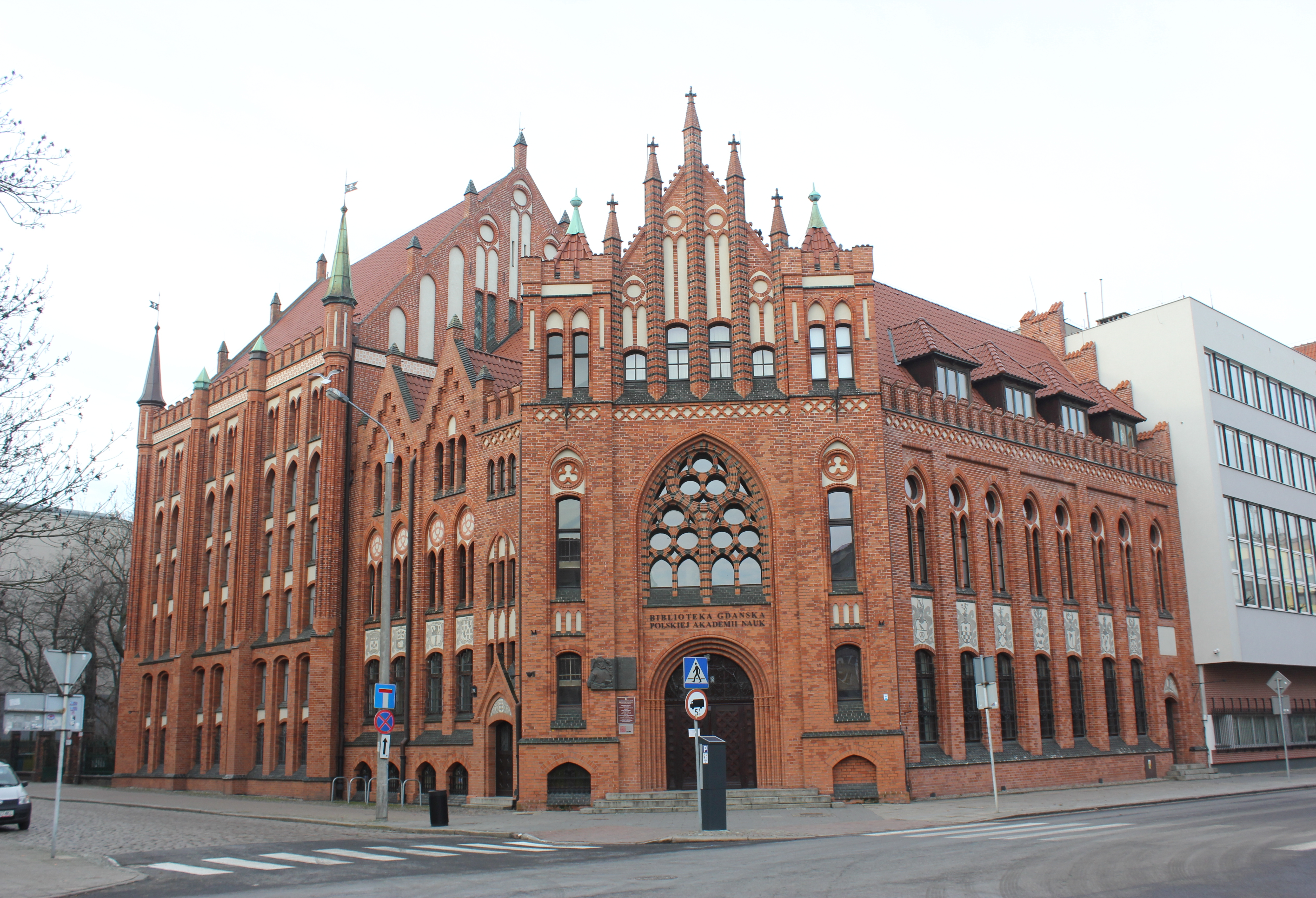 Gdańsk - Gdańsk Library of the Polish Academy of Science